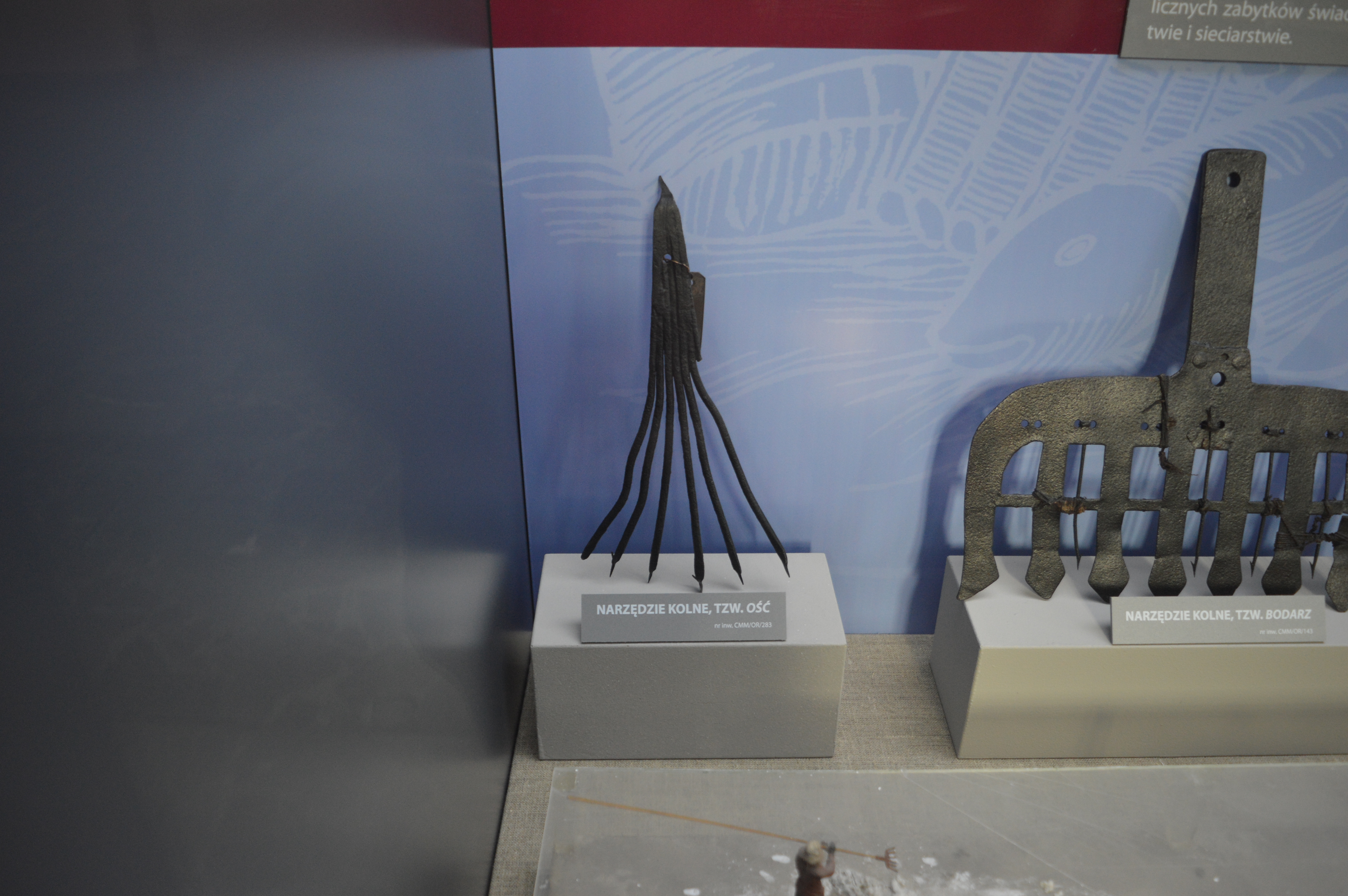 Gigging equipment for catching eels. Used by fishermen from Pomerania. Exhibition in Museum of Fishery in Hel, Poland.